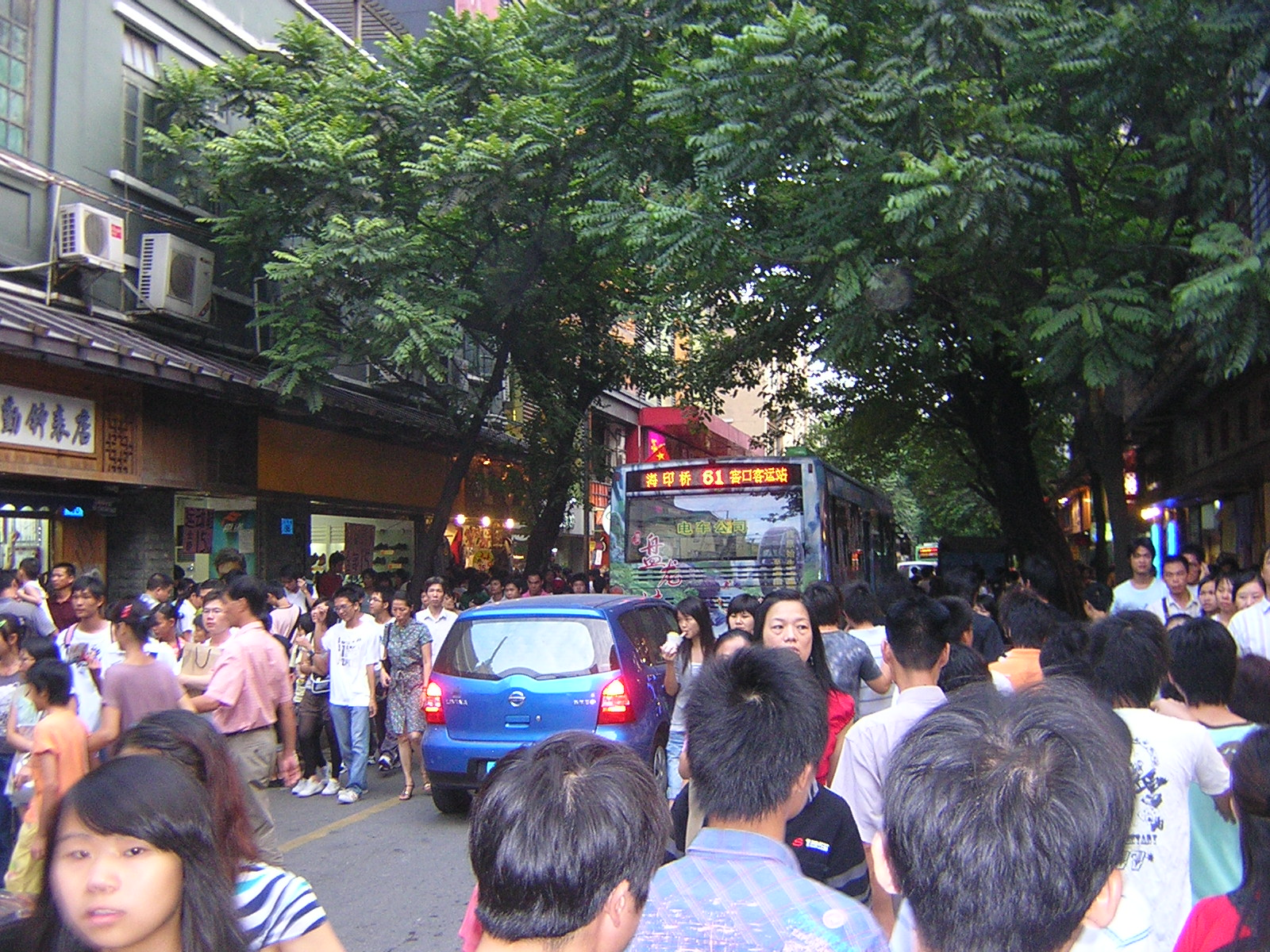 Crowded Guangzhou street near Changshou Lu subway station.